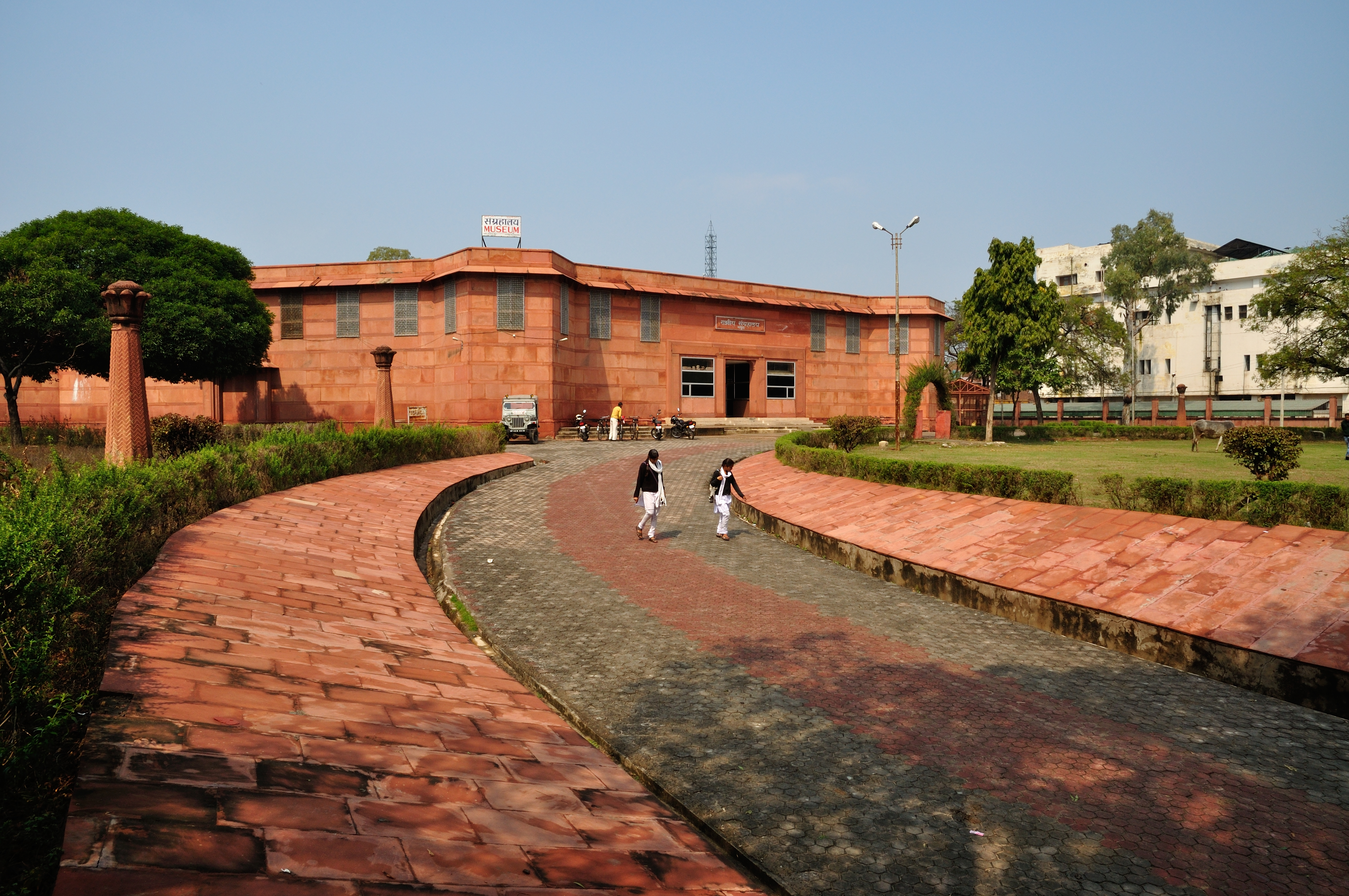 The Government Museum, (hi: Rashtriya Sangrahalaya) formerly The Curzon Museum of Archaeology, Museum Road or Murari Lal Rajpal road, Dampier Nagar, Mathura, Uttar Pradesh, India. The museum was founded by the then collector of the Mathura district Mr. F S Growse in 1874. This present building was started functioning from 1930. This museum is administrating by the State Government of Uttar Pradesh of India.